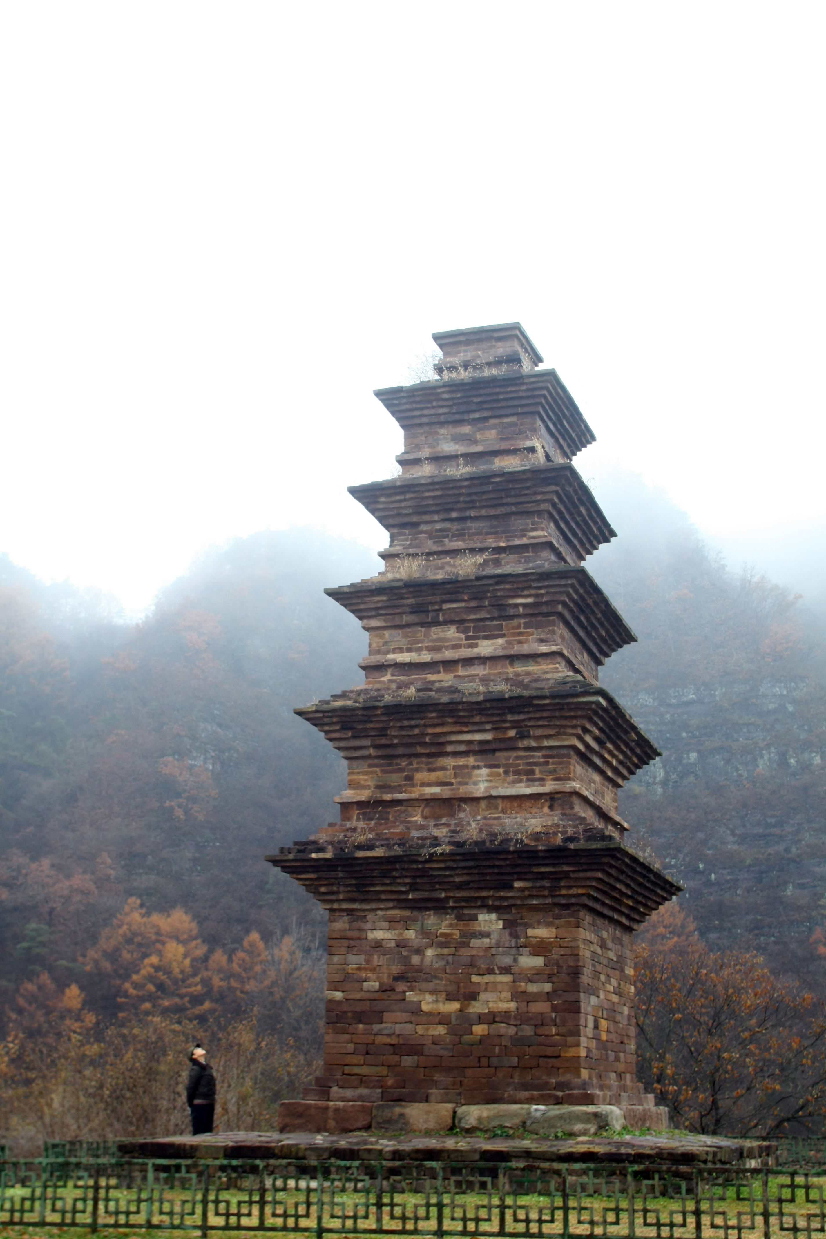 Five-story Stone Brick Pagoda at Sanhae-ri, Yeongyang in South Korea